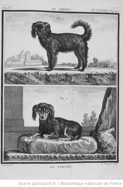 Continental Toy Spaniel